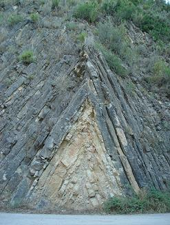 Hito geológico de Sot de Chera, en Valencia (España)